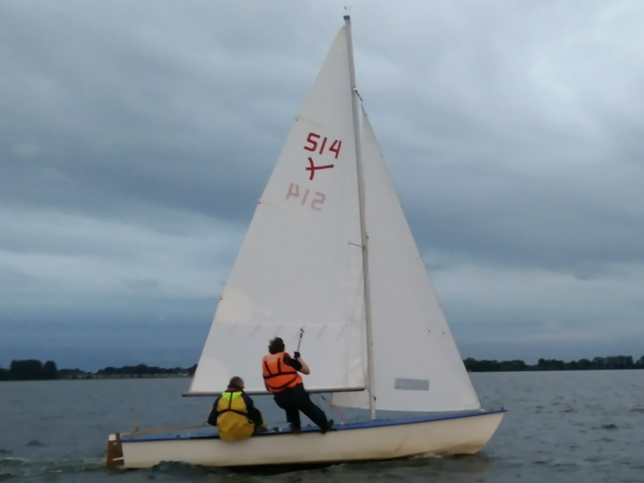 Flying Arrow Spanker 14 Playtime